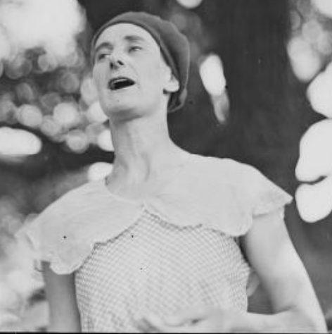 Jane (Jean) Devanny (1894-1962), New Zealand born, in Australia from 1929. Communist and writer of novels and short stories.